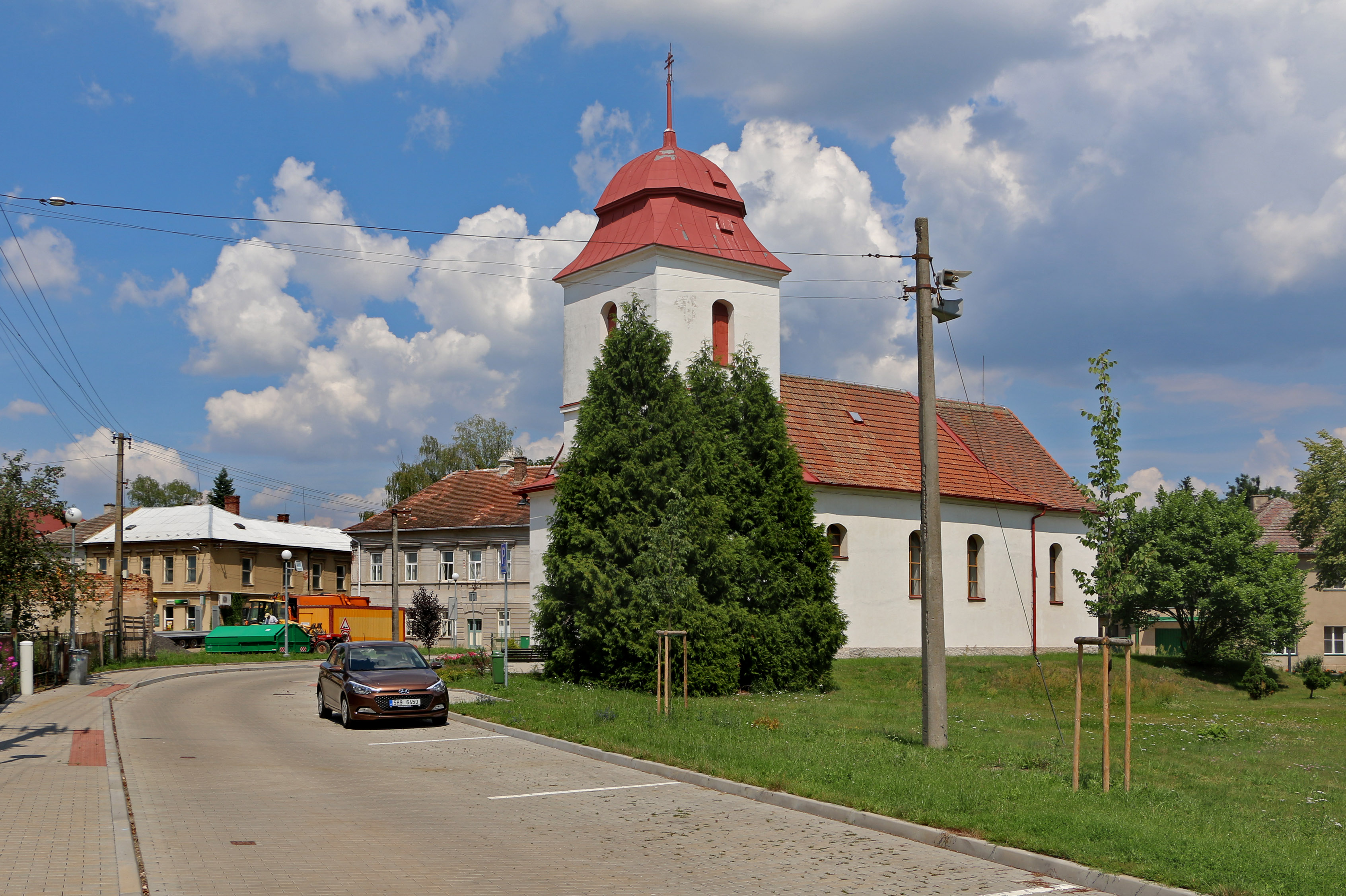 Common in Albrechtice nad Orlicí, Czech Republic.